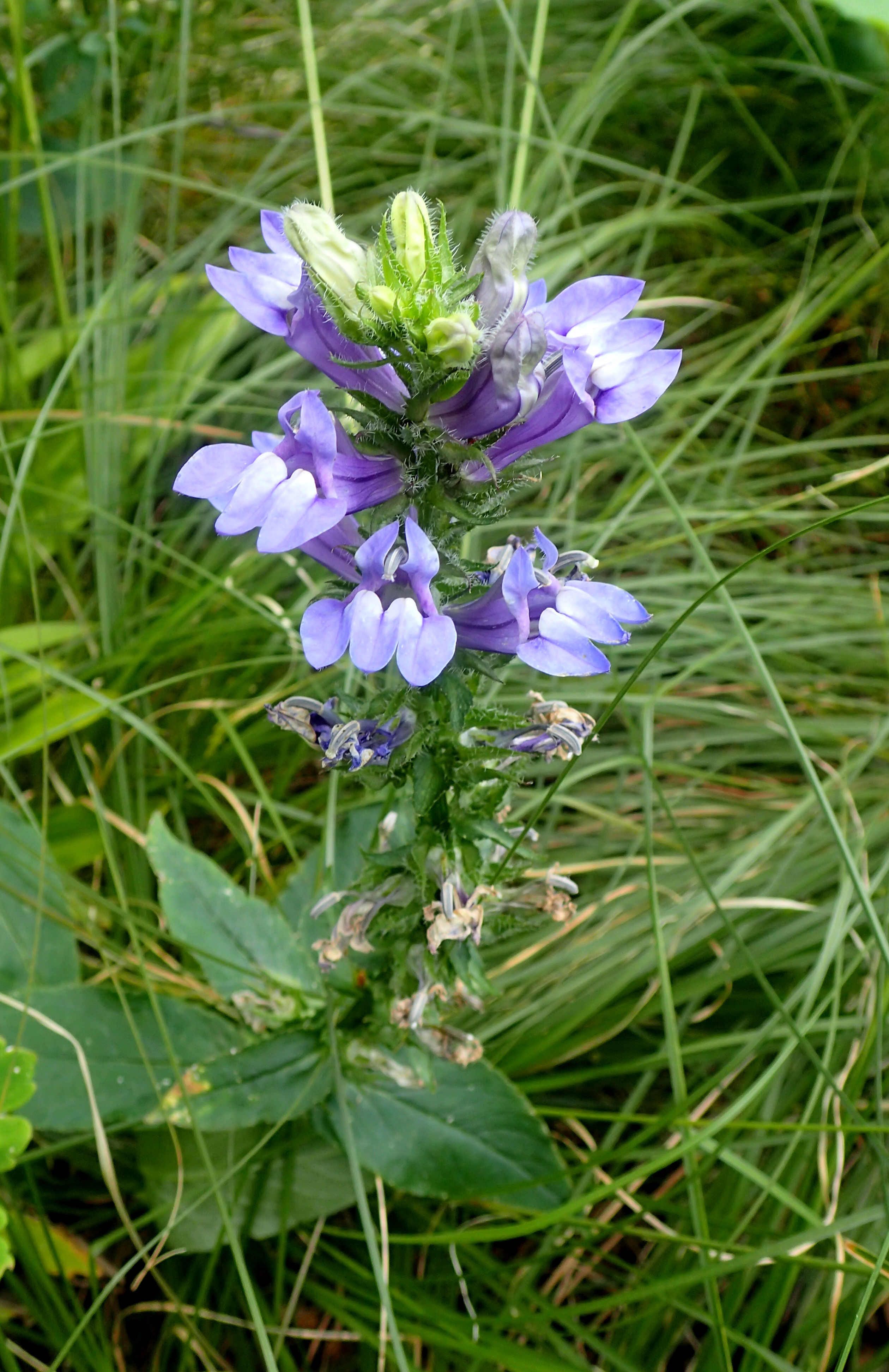 Lobelia siphilitica at the New York Botanical Garden